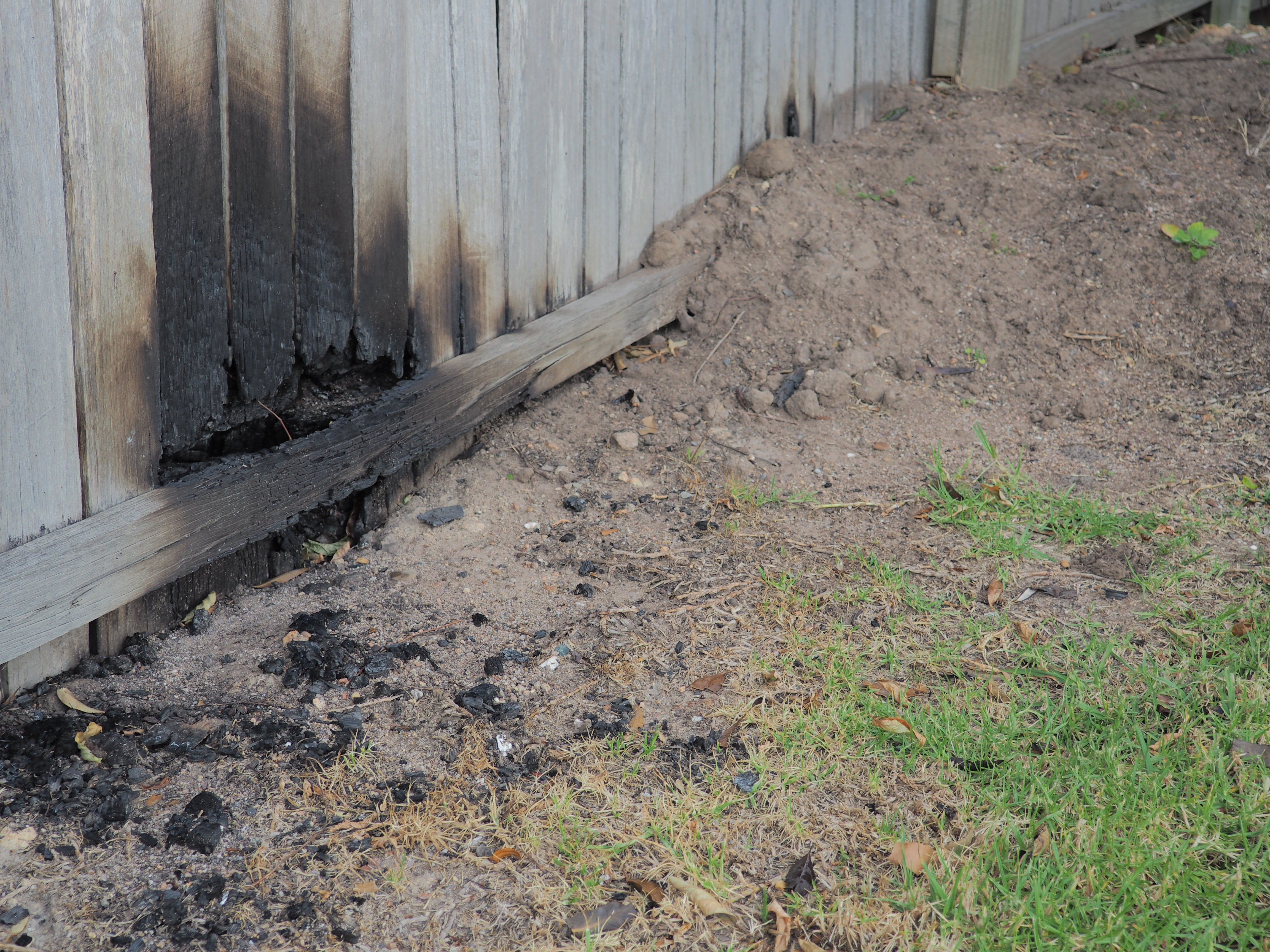 Ignition of a wood fence due to embers landing on the fence bearer